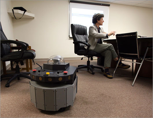 MobileRobots' PatrolBot scouted around buildings autonomously to provide an extra set of eyes.